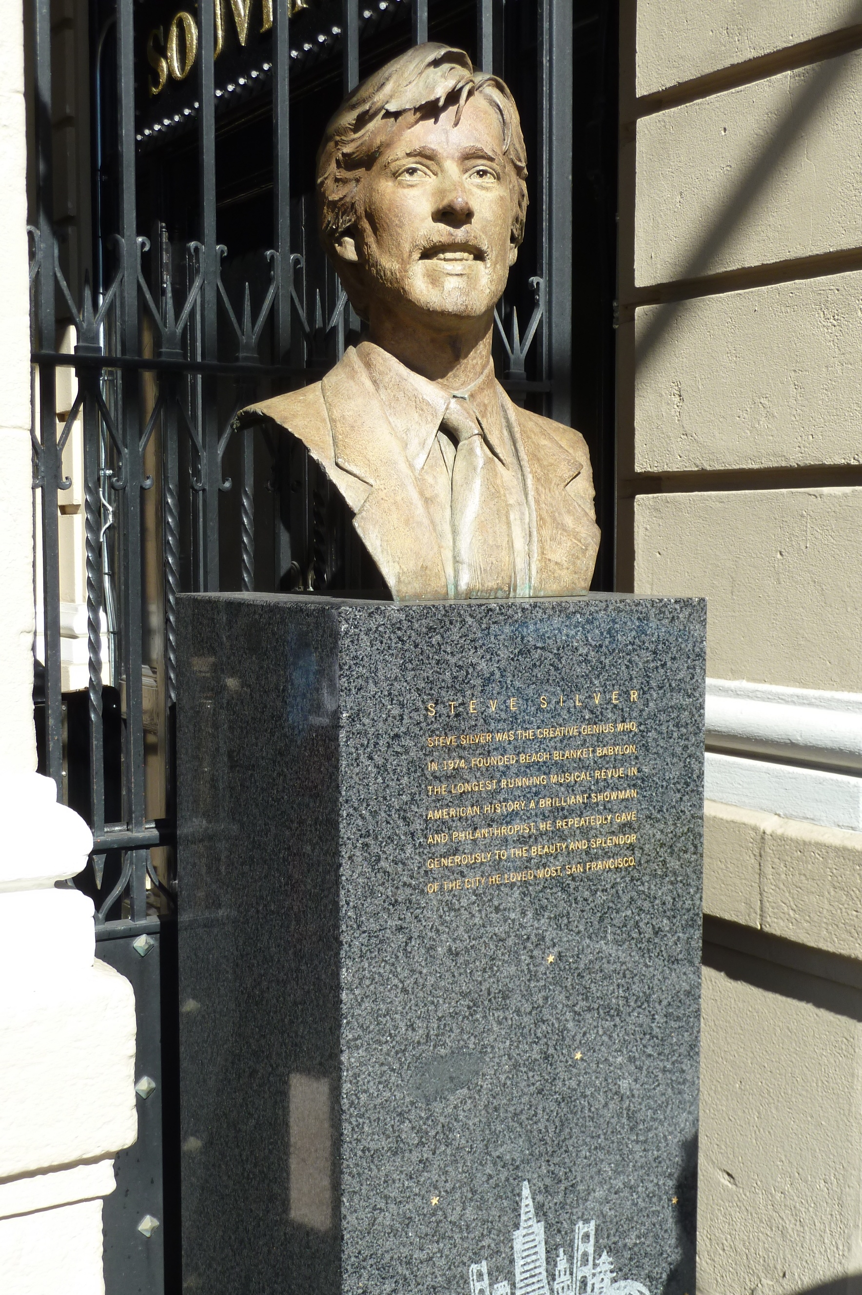 Bronze bust of Steve Silver in front of Club Fugazi theatre, 678 Green Street (a.k.a. "Beach Blanket Babylon Boulevard"), San Francisco, California, United States. Silver created the "Beach Blanket Babylon" musical revue in 1974, as of 2014 the longest-running revue in American history.